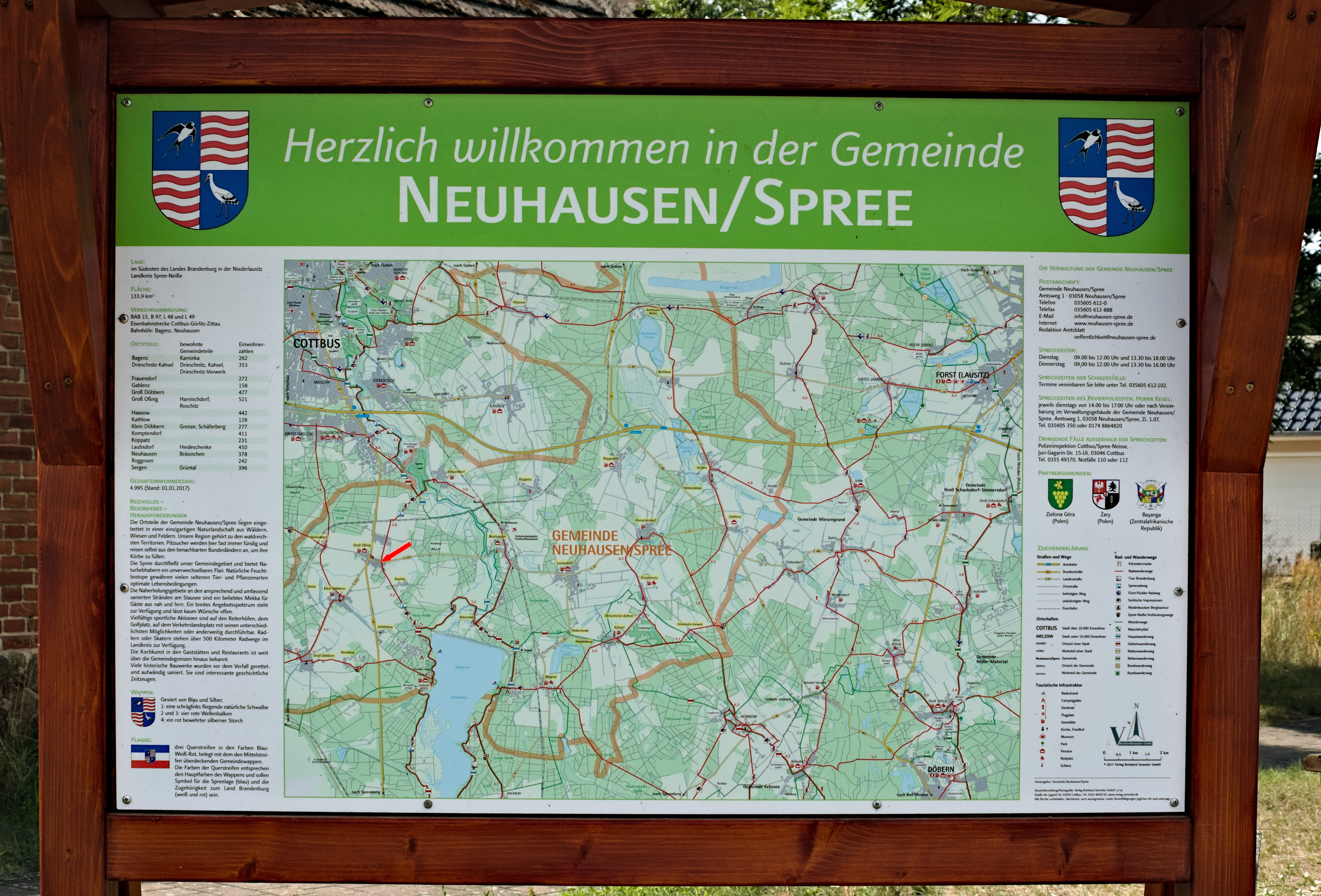 Map and tourist information in Groß Oßnig.Freedom of panorama applies.